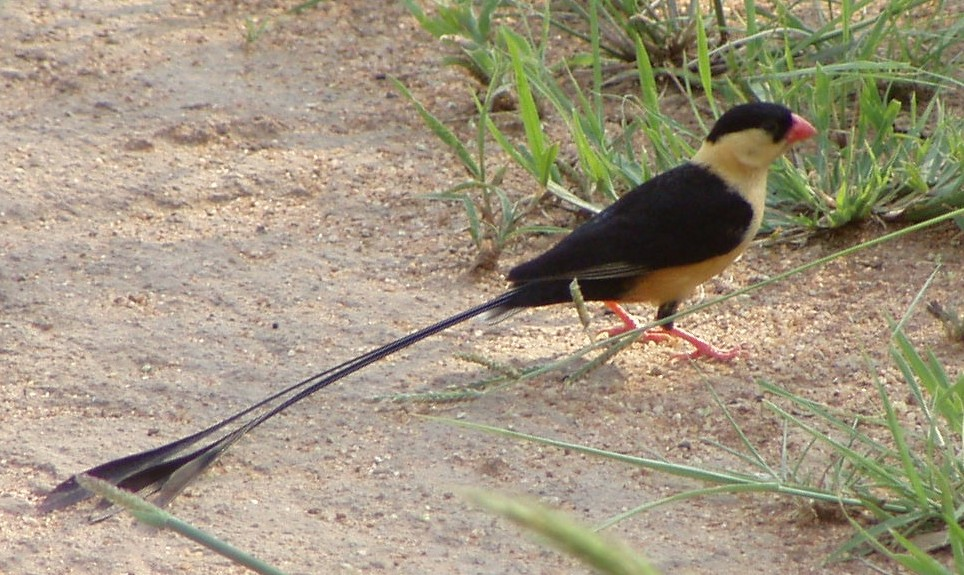 Male Shaft-tailed Whydah Vidua regia in breeding plumage. At Mabalingwe Nature Reserve, Limpopo Province, South Africa